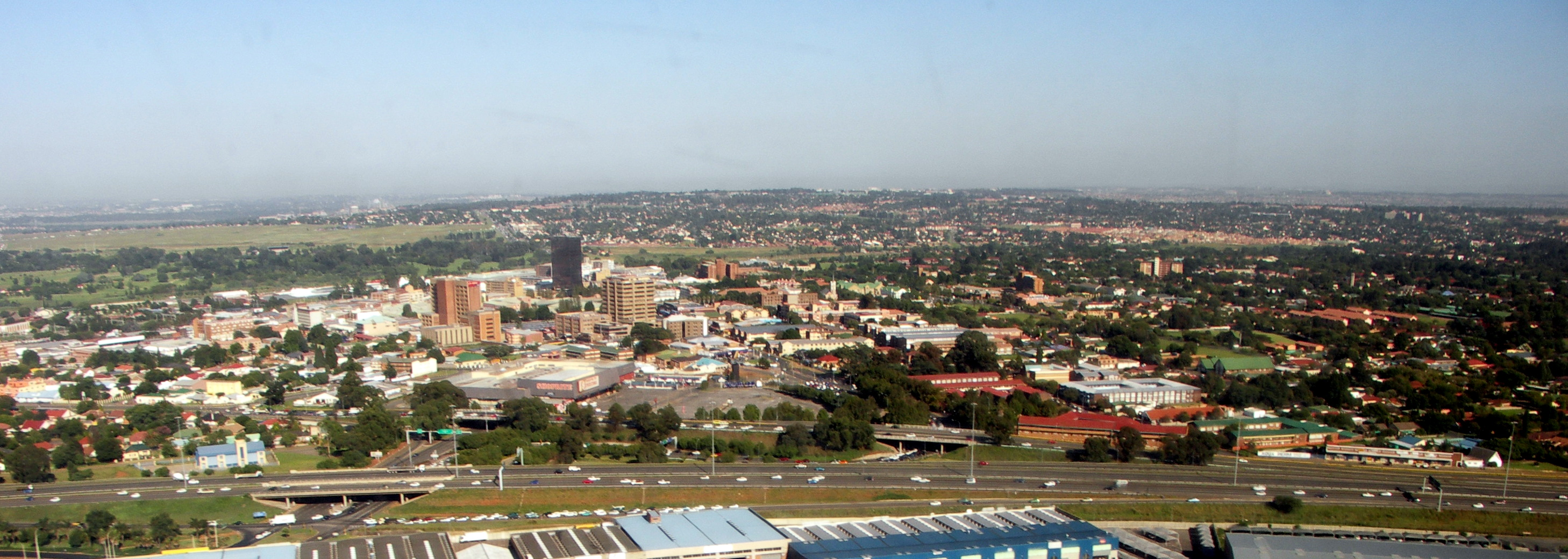 Kempton Park, South Africa seen on takeoff from O.R. Tambo International Airpoirt